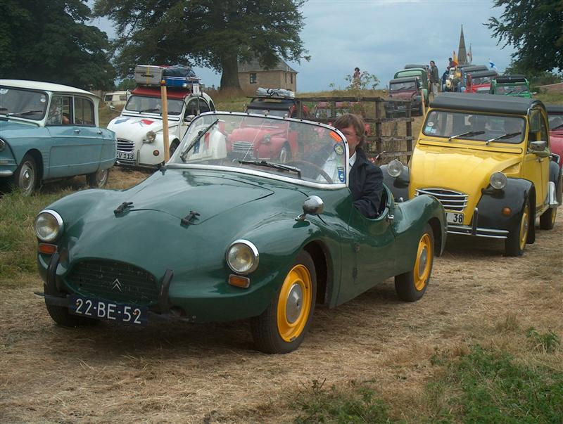 2CV Radar (1958) owned by W. Klein Lankhorst